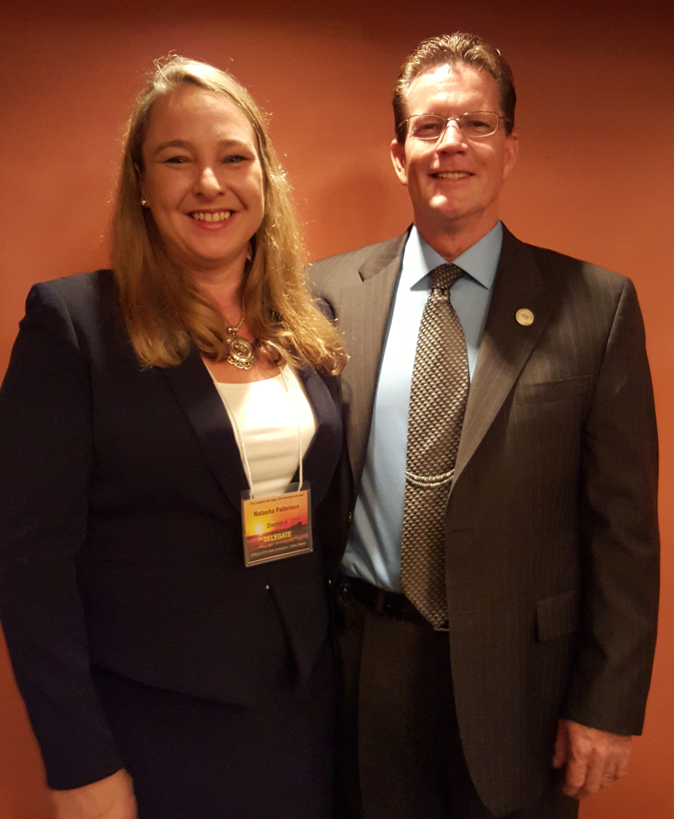 2 officers of the NRLCA